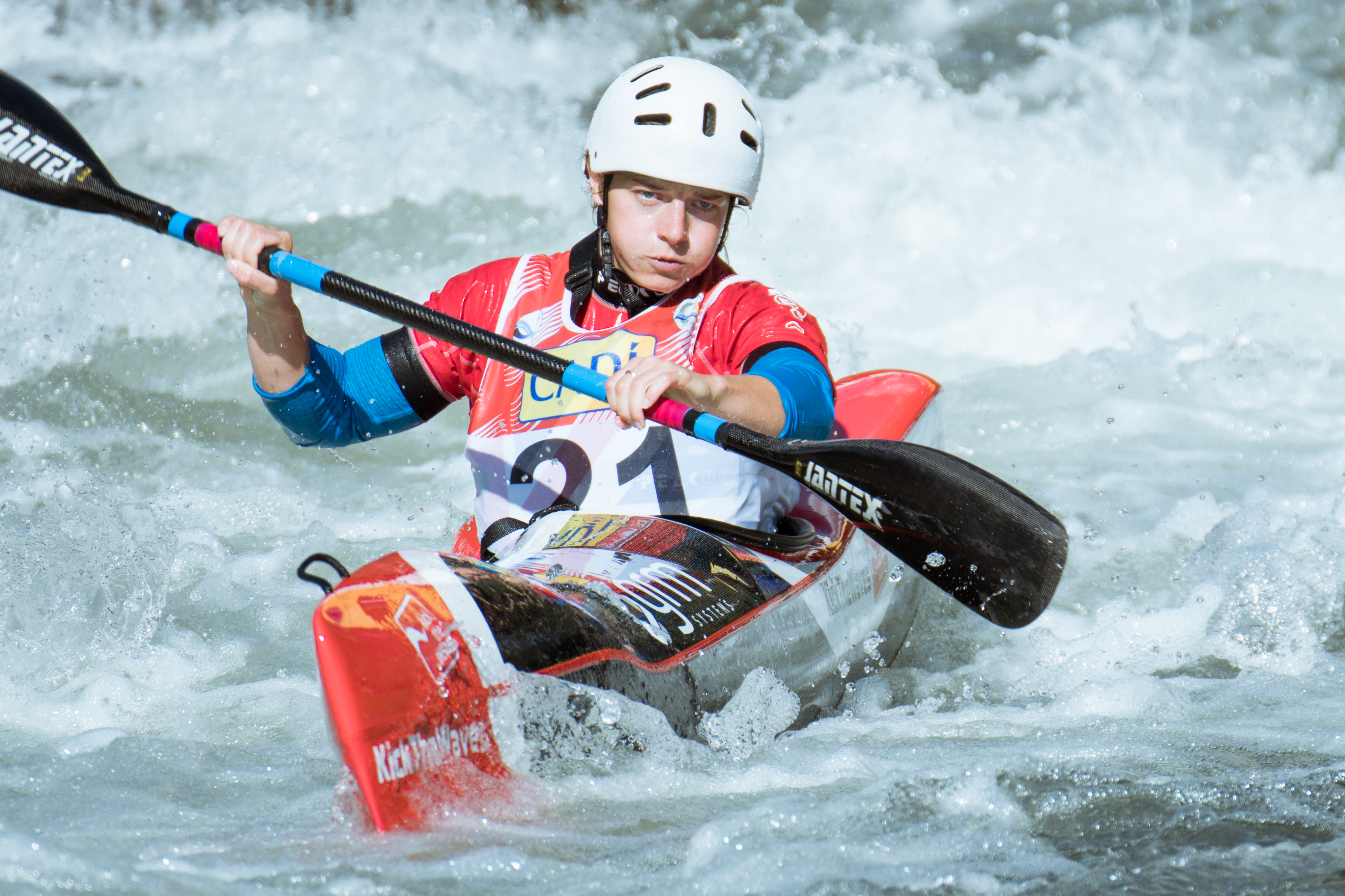 Hannah Brown during the 2019 Canoe Wildwater World Championships in La Seu d'Urgell, Spain.